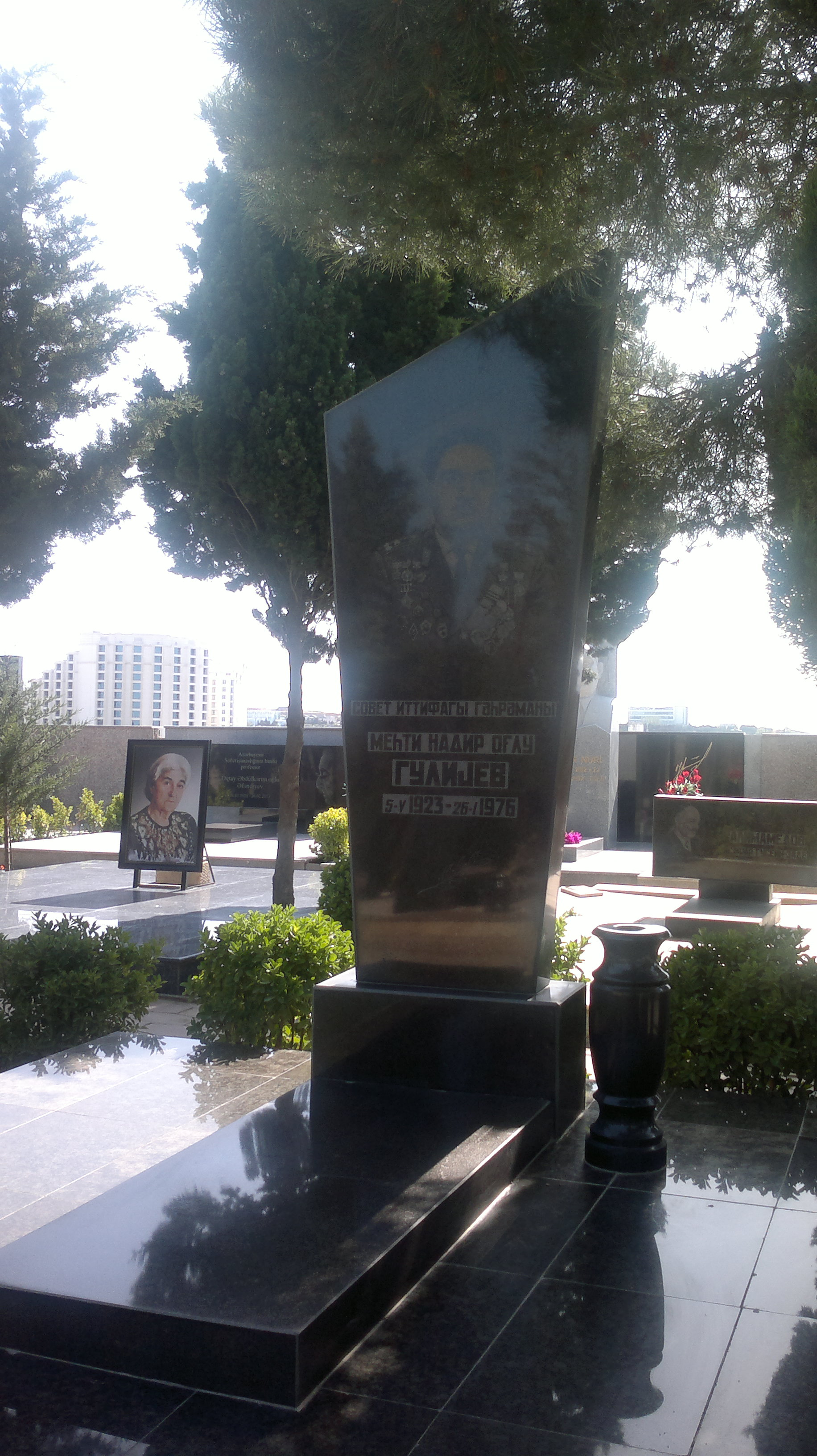 Burial of Mehdi Guliyev at II Alley of Honor (Azerbaijan)